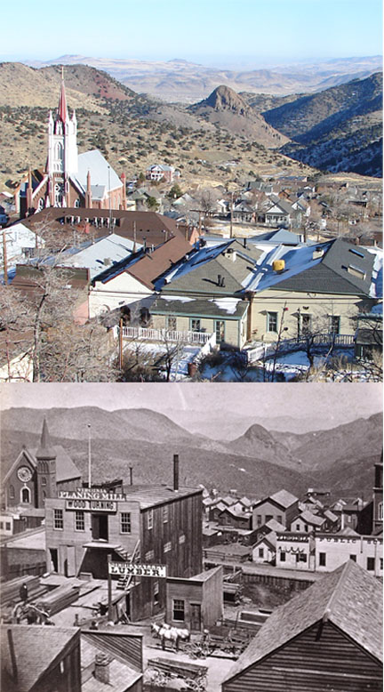 This was taken from "A" street but I think the original was taken a little lower down, perhaps from someones porch or window. The church looks different but there is another behind the church that looks more similar. Look at the larger size for more detail in the old photo. There are people milling about, several wagons, an oddly shaped building under the "Sierra Valley Lumber" sign and a stairway without a railing on the "Planing Mill Wood Turning" building. Raw lumber was brought in and "planed" to a smooth surface. A noisy operation for a downtown. The church at left is St. Mary in the Mountains Catholic church. It was rebuilt in 1875 after a big fire burned down 90% of Virginia City. So bottom photo is pre-1875.